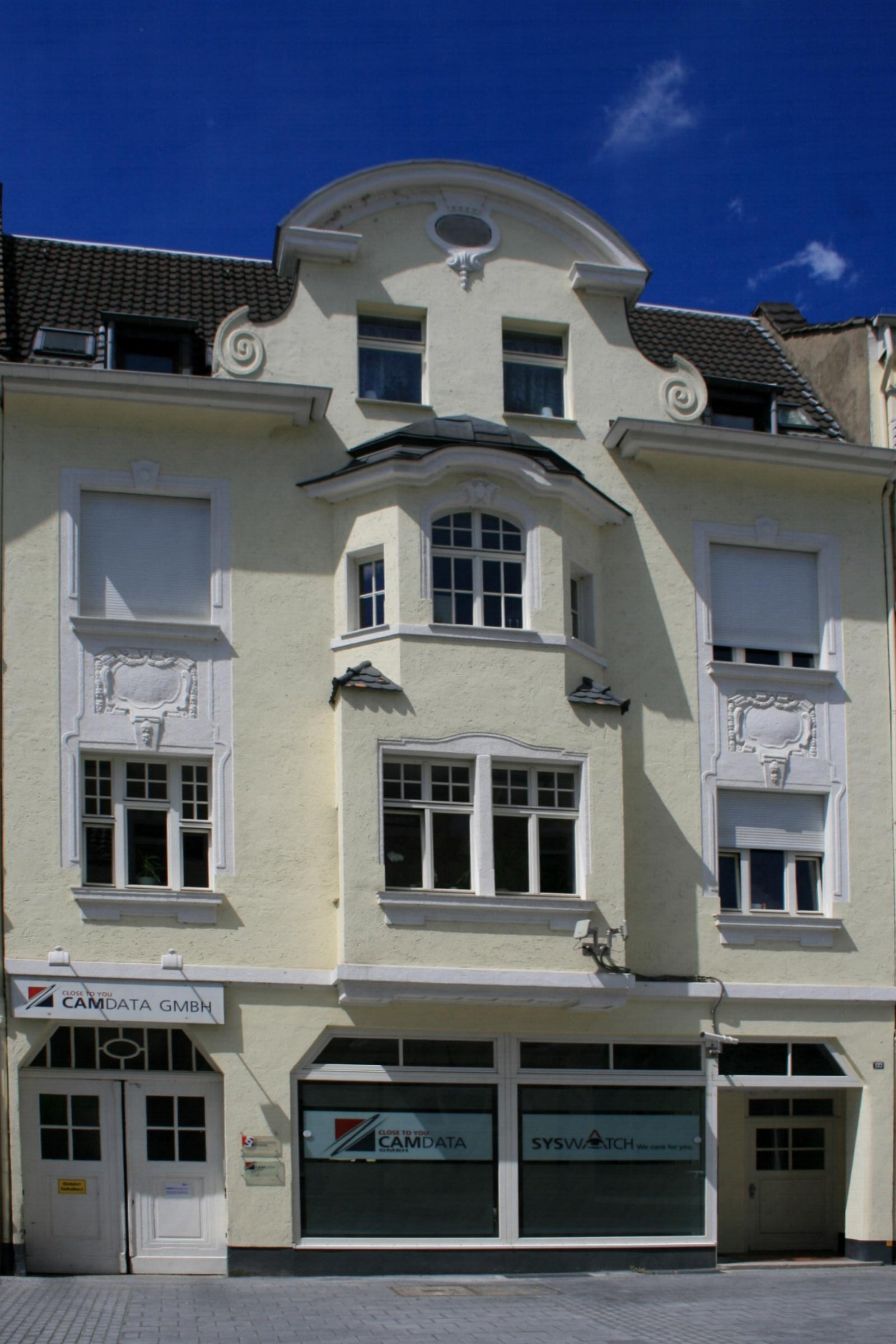 Cultural heritage monument No. E 024 in Mönchengladbach